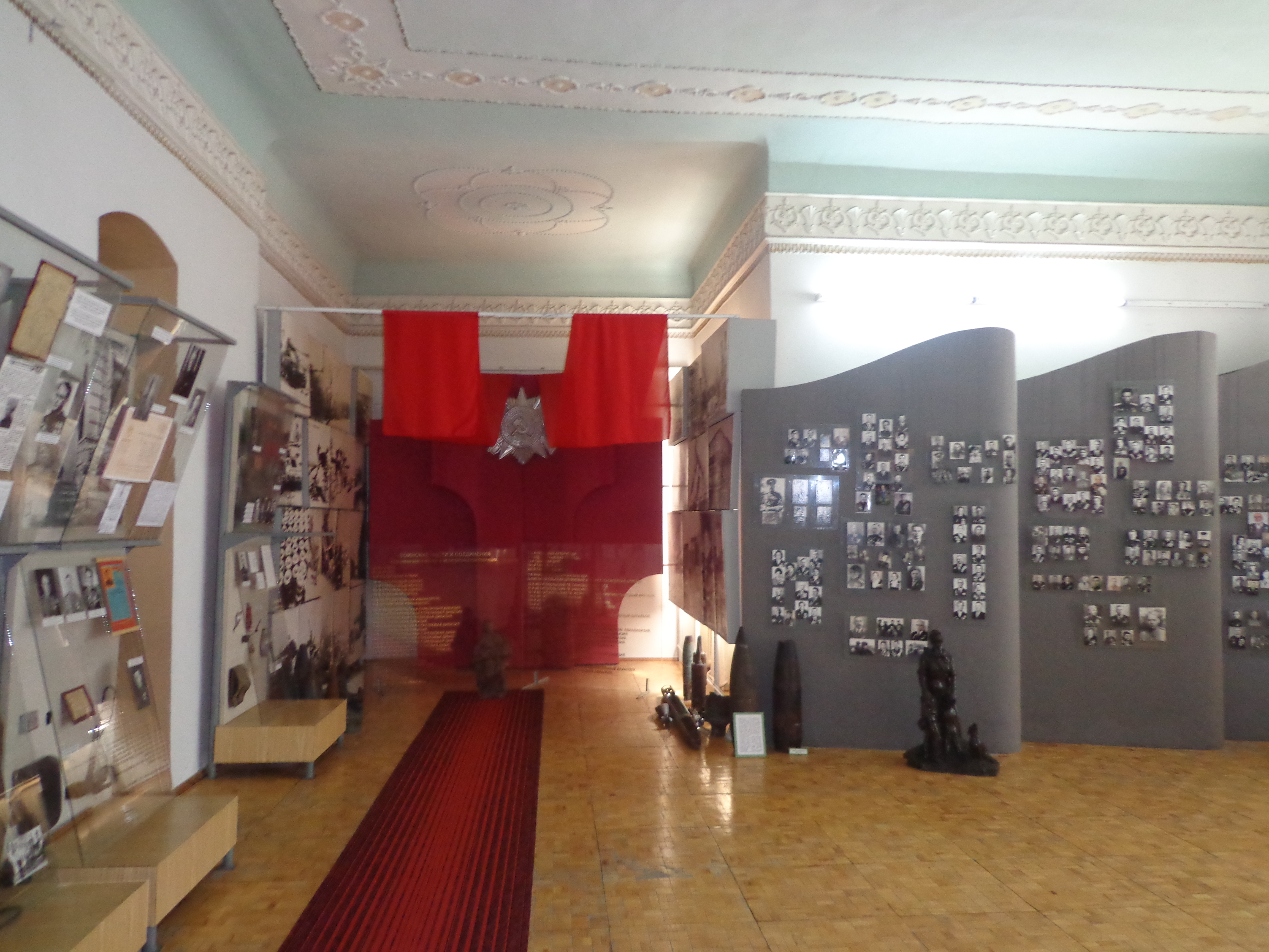 Exposition dedicated to WW2 in Melitopol Museum, Melitopol, Ukraine